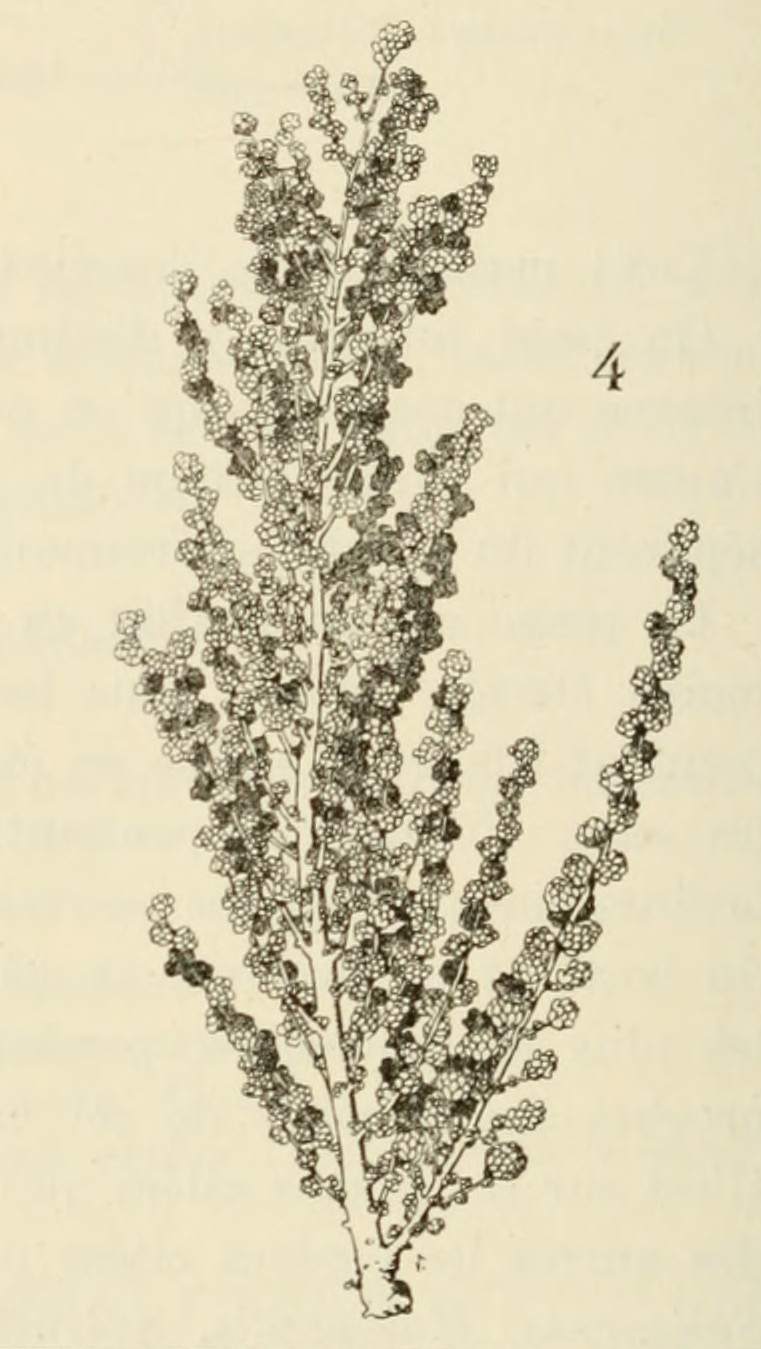 Heterostachys olivascens (Syn. Spirostachys olivascens), from: Title: Anales del Museo Nacional de Historia Natural de Buenos Aires Year: 1911-1923. (1910s) Authors: Museo Nacional de Historia Natural de Buenos Aires Subjects: Natural history; Natural history Publisher: Buenos Aires : Impr. y Casa Editora "Juan A. Alsina" Text Appearing Before Image: 344 MUSEO NACIONAL DE BUENOS AIRES. Text Appearing After Image: Fig. 14.— Flore des bords des salines 1.—Halopeplis patagonica. 2.—Salicornia corticosa 3.—Frankenia microphylla. 4.—Spirostachys olivascens (1/2 gr. nat.)